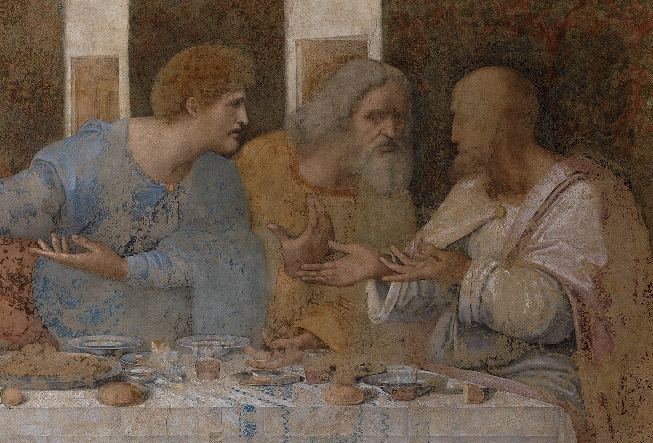 Image of Leonardo da Vinci's Last Supper, cropped to only show the three disciples on the far right side of the table.